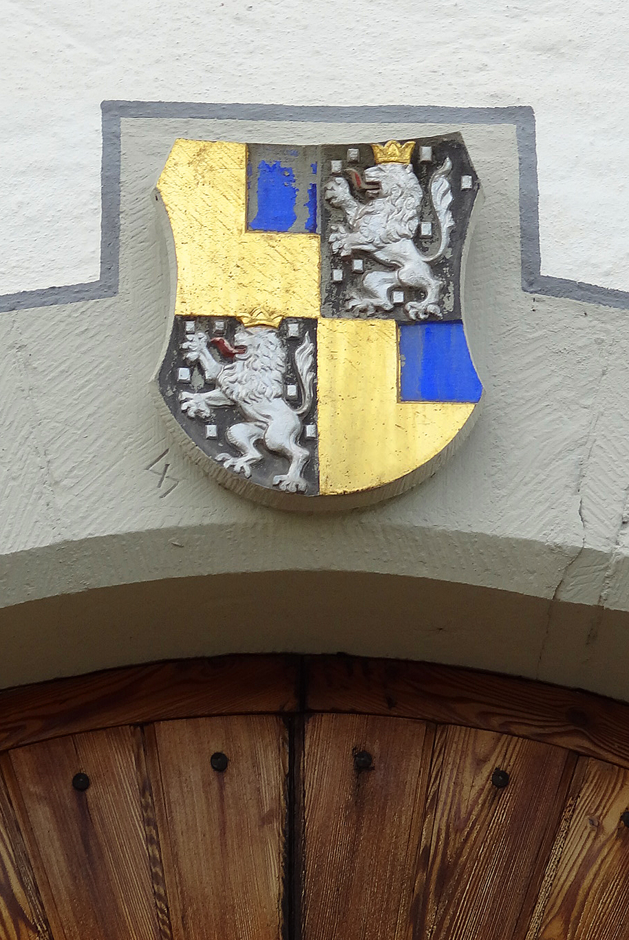 Altenklingen Castle in Switzerland. Coatof arms above entrance gate.